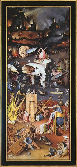 The Garden of Earthly Delights